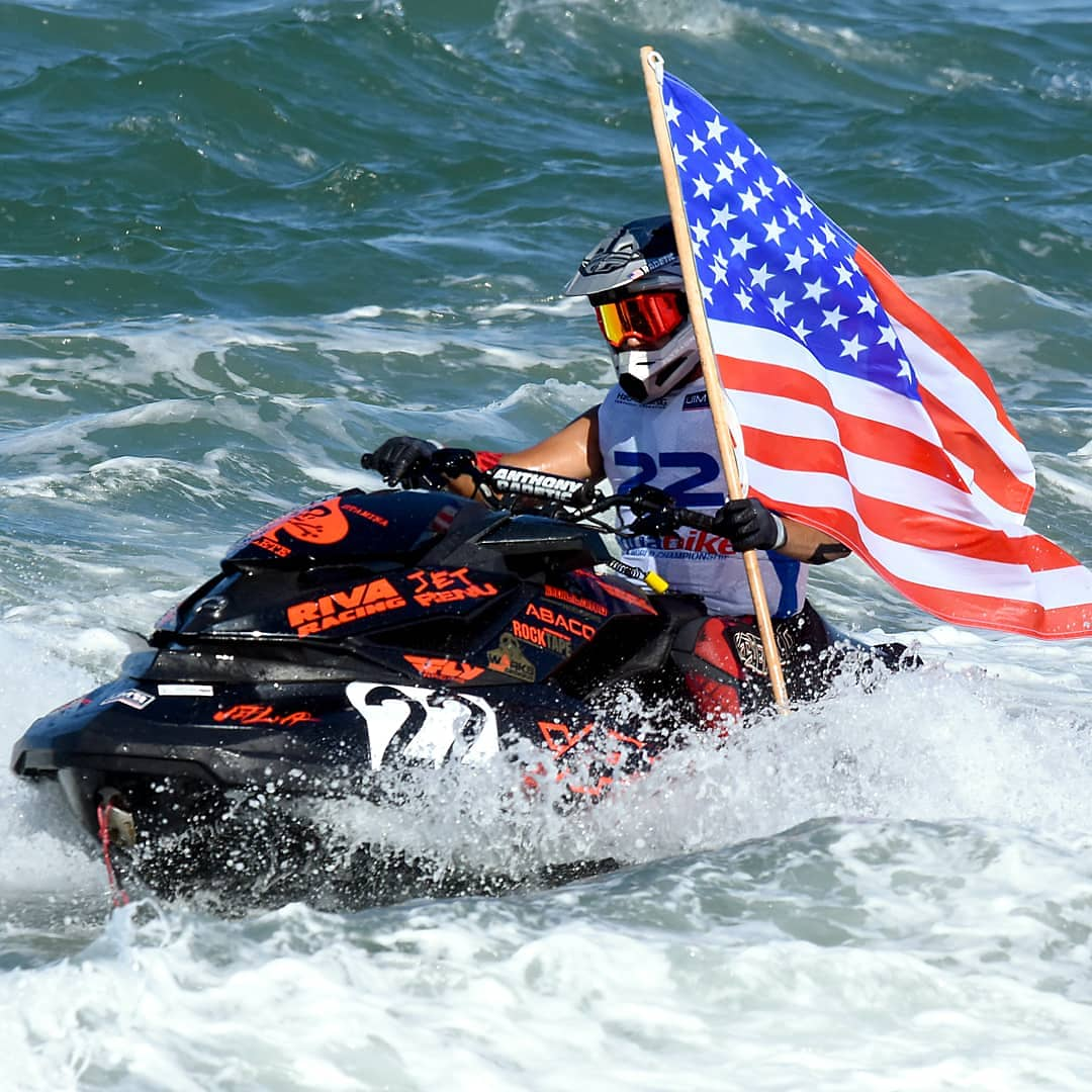 Anthony Radetic on a Sea-Doo preparing for a race.